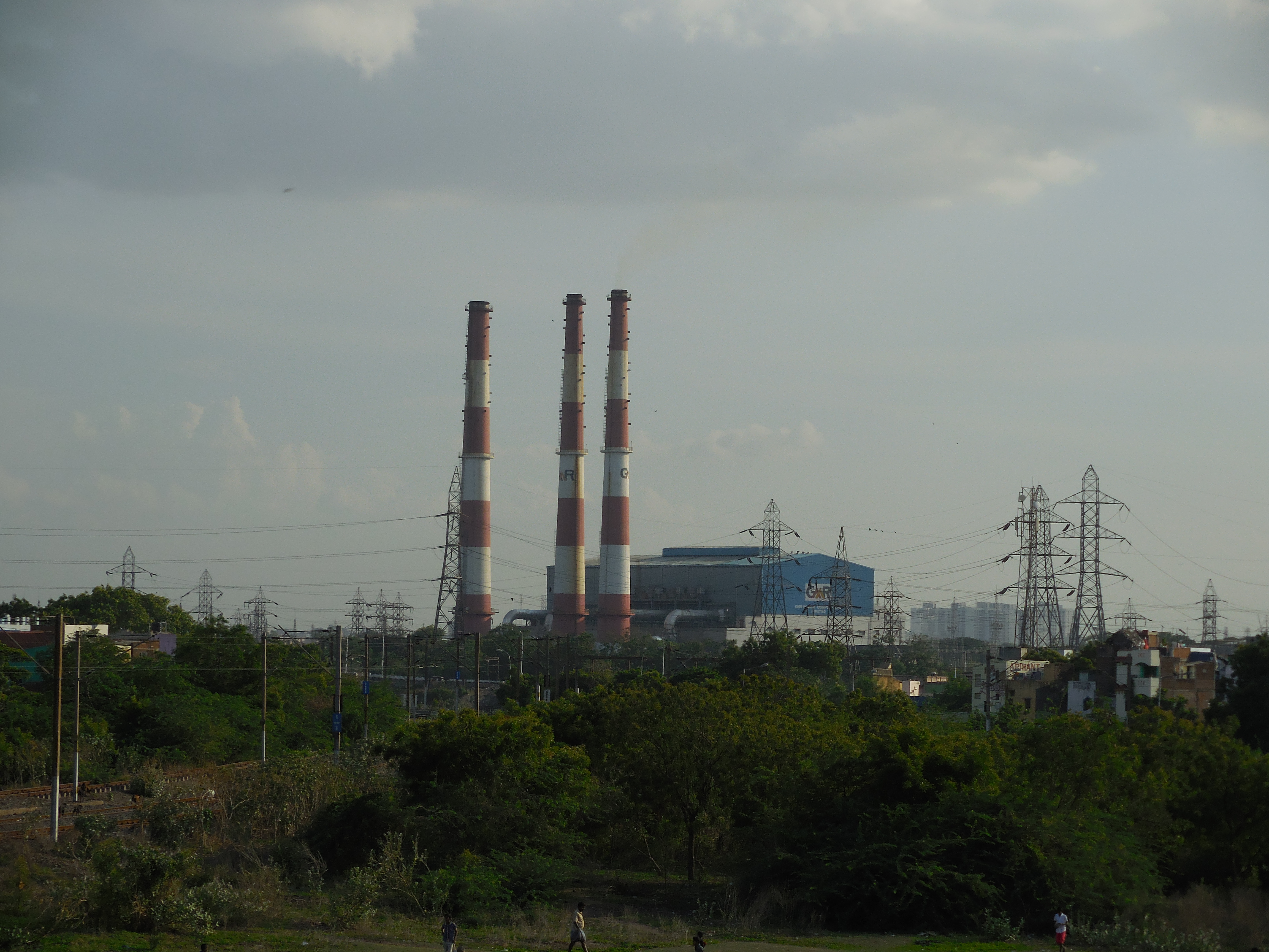 GMR Vasavi Power Plant, Chennai, taken on 6 July 2014 at 5:00 pm